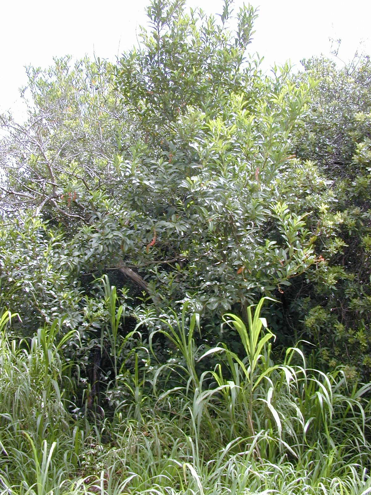 Citharexylum caudatum (habit). Location: Maui, Haiku